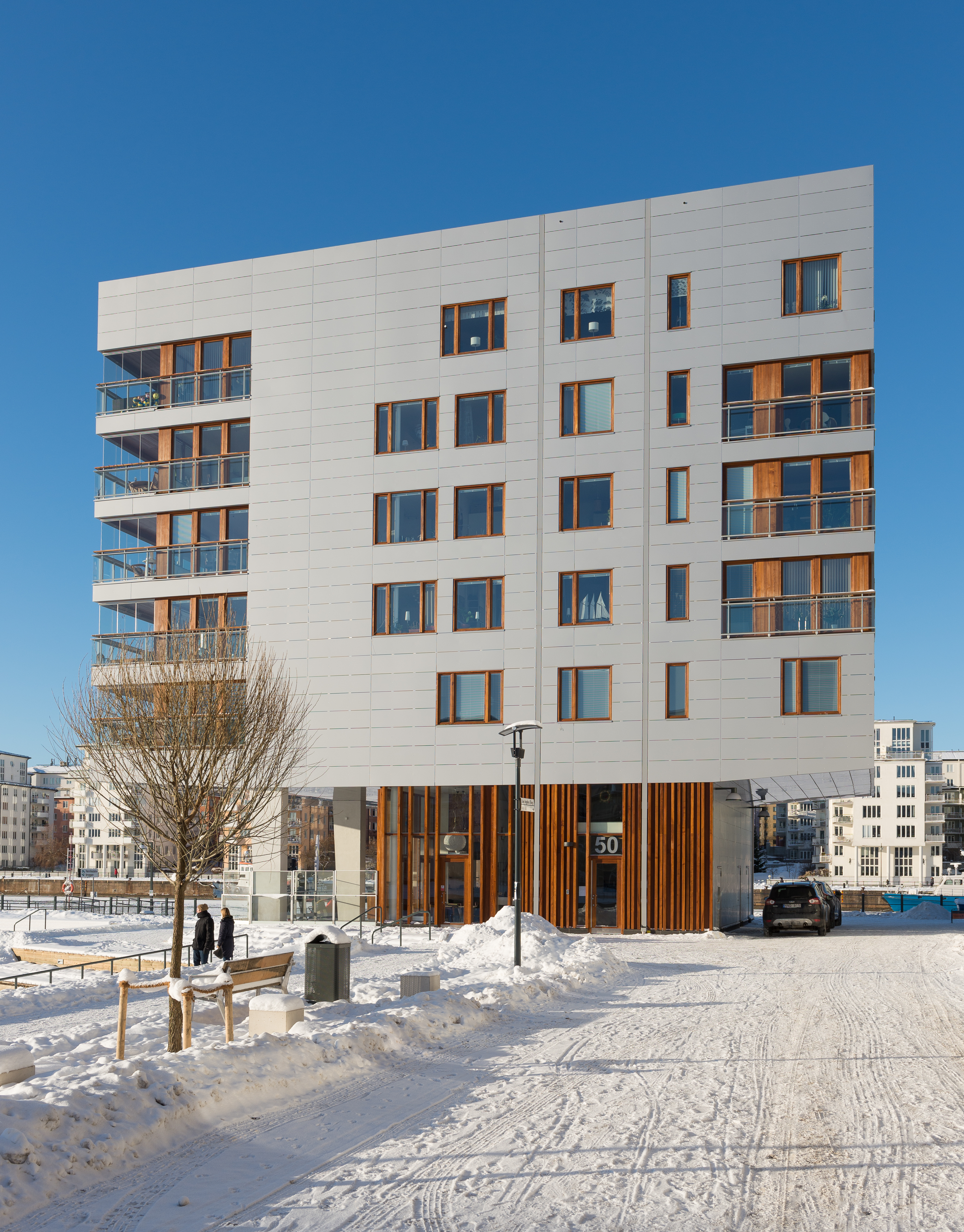 Building in Henriksdalshamnen built 2009-10, Södra Hammarbyhamnen, Stockholm. Architect: AIX Arkitekter